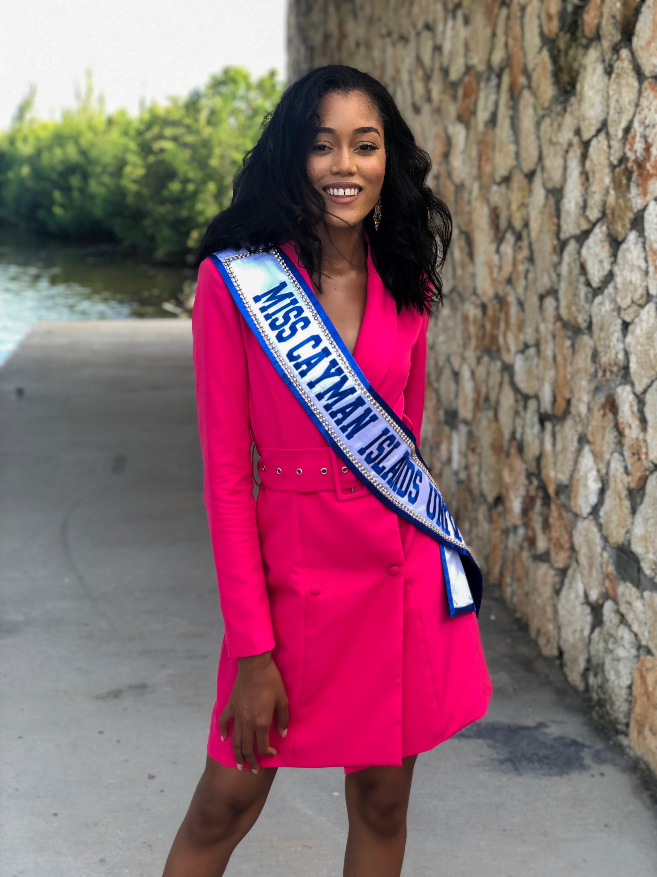 Kadejah Bodden, Miss Cayman Islands Universe